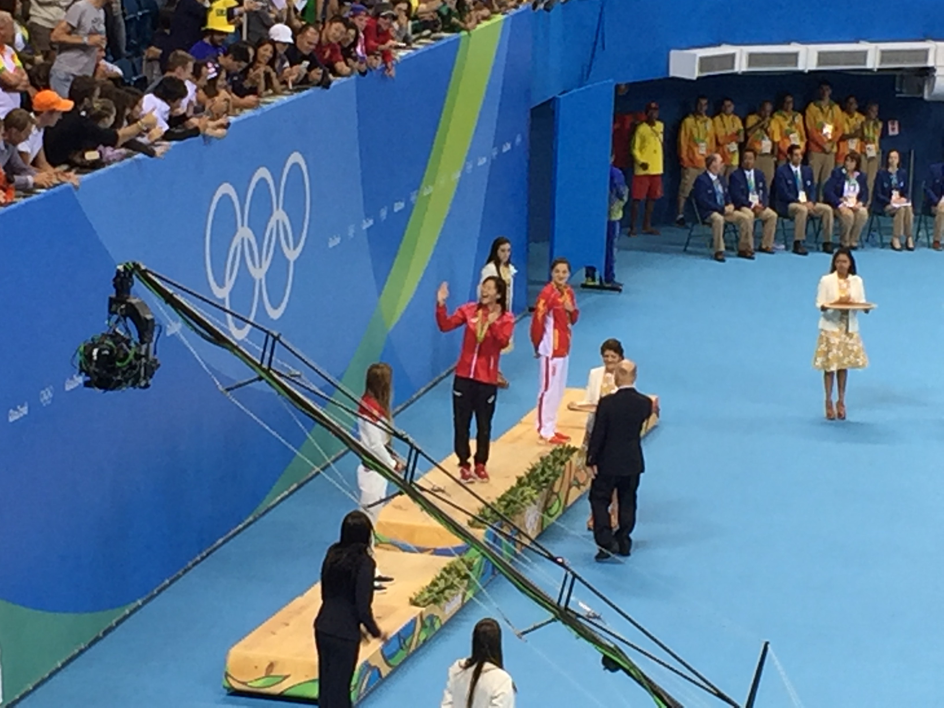 Rio 2016 Summer Olympics